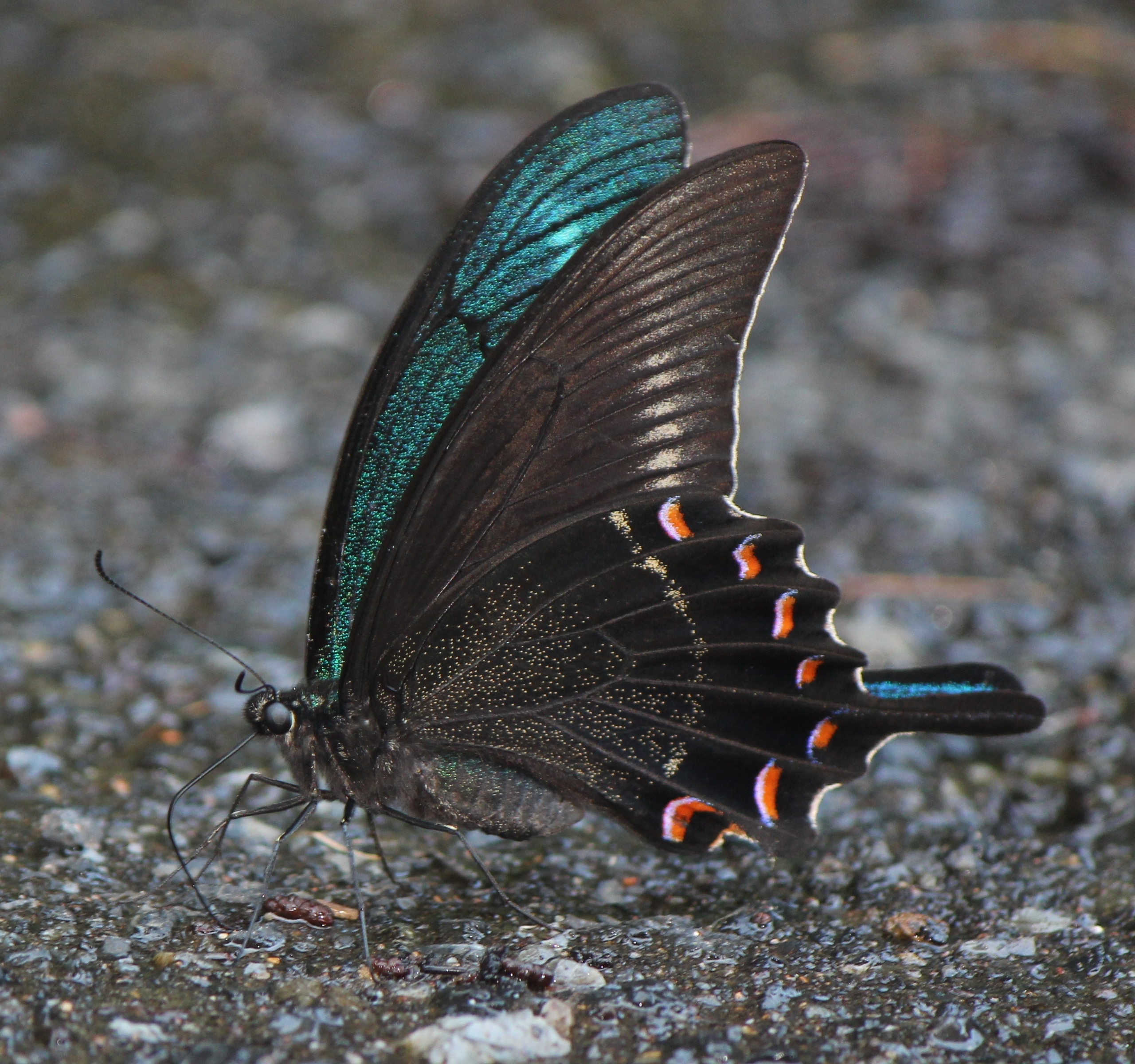 Papilio maackii in Gifu pref., Japan.